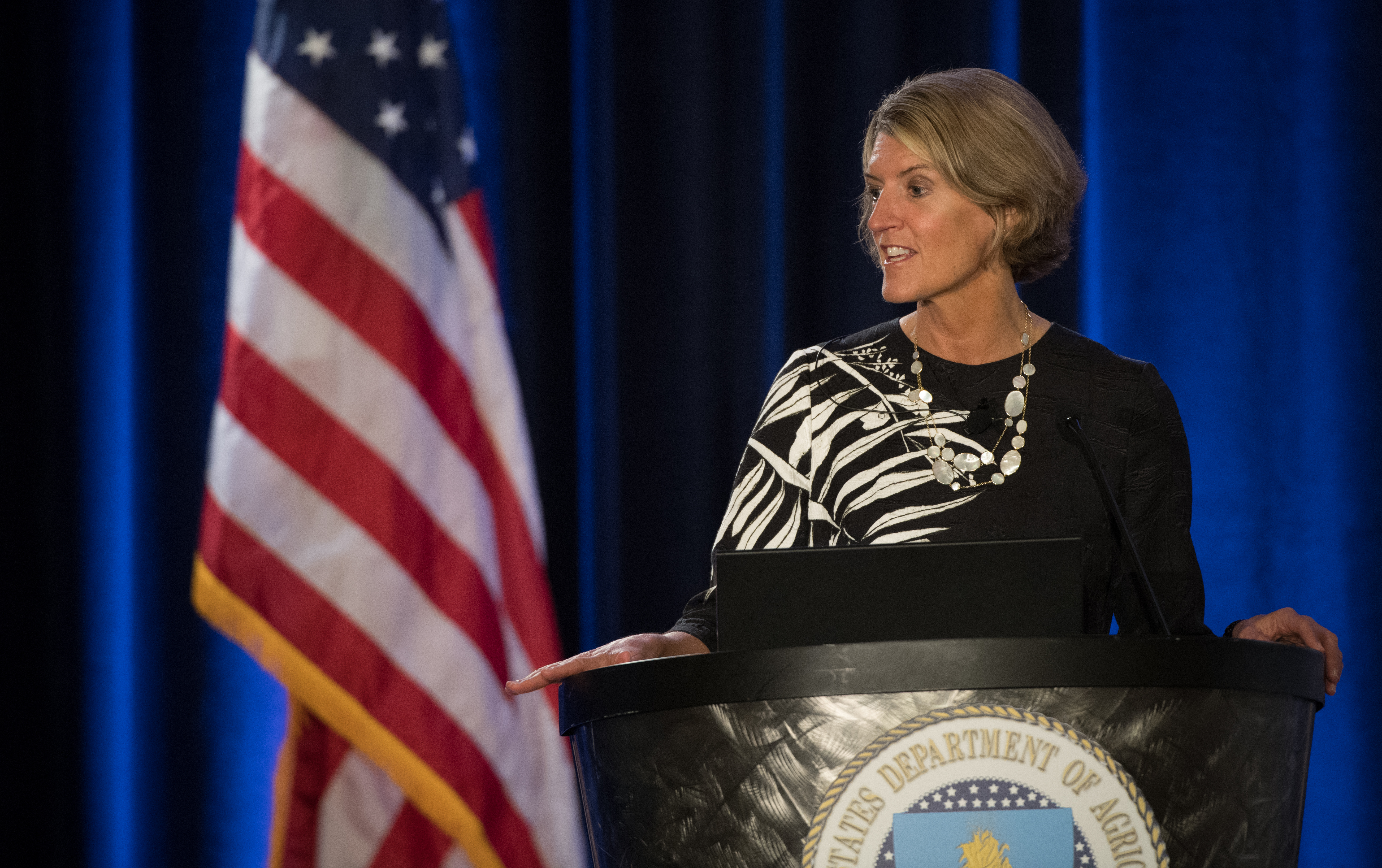 Land O’Lakes, Inc. Group Executive VP & COO Beth Ford, during the U.S. Department of Agriculture (USDA) 93rd Annual Agricultural Outlook Forum (AOF), in Arlington, VA, on Thursday, Feb 23, 2017. The theme of this AOF is “A New Horizon: The Future of Agriculture.” The Agricultural Outlook Forum, now in its 93rd year, is the USDA’s largest annual meeting, attracting more than 1,800 attendees. Along with the plenary panel discussion, attendees can choose from 30 sessions with more than 80 speakers and a host of agriculture-related exhibits. The Forum is a platform facilitating conversation on key issues and topics within the agricultural community, including producers, processors, policy makers, government officials, and both foreign and domestic non-government organizations. Forum information can be found at USDA Photo by Lance Cheung.